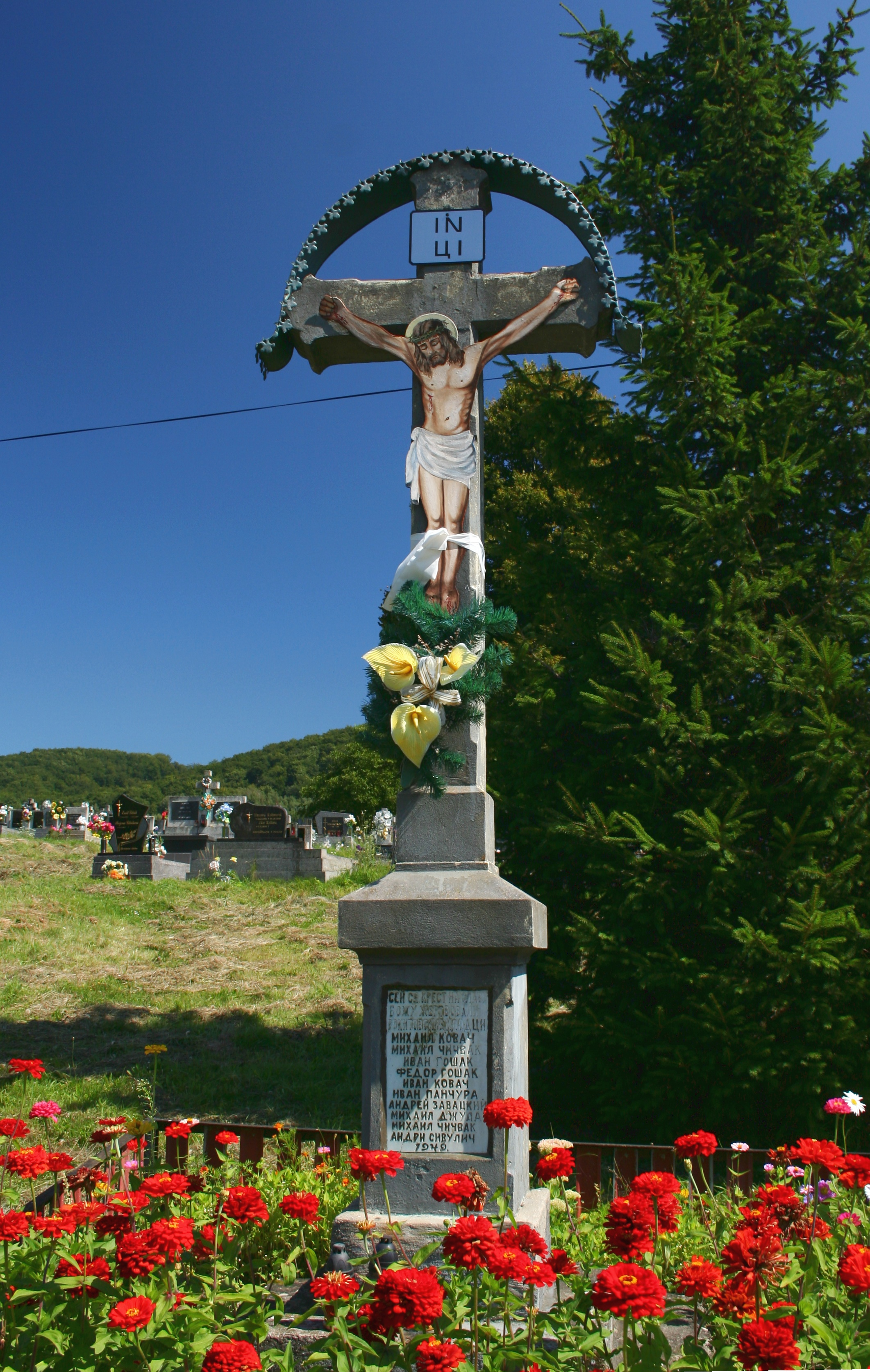 cross in Rokytovce, village in Slovakia